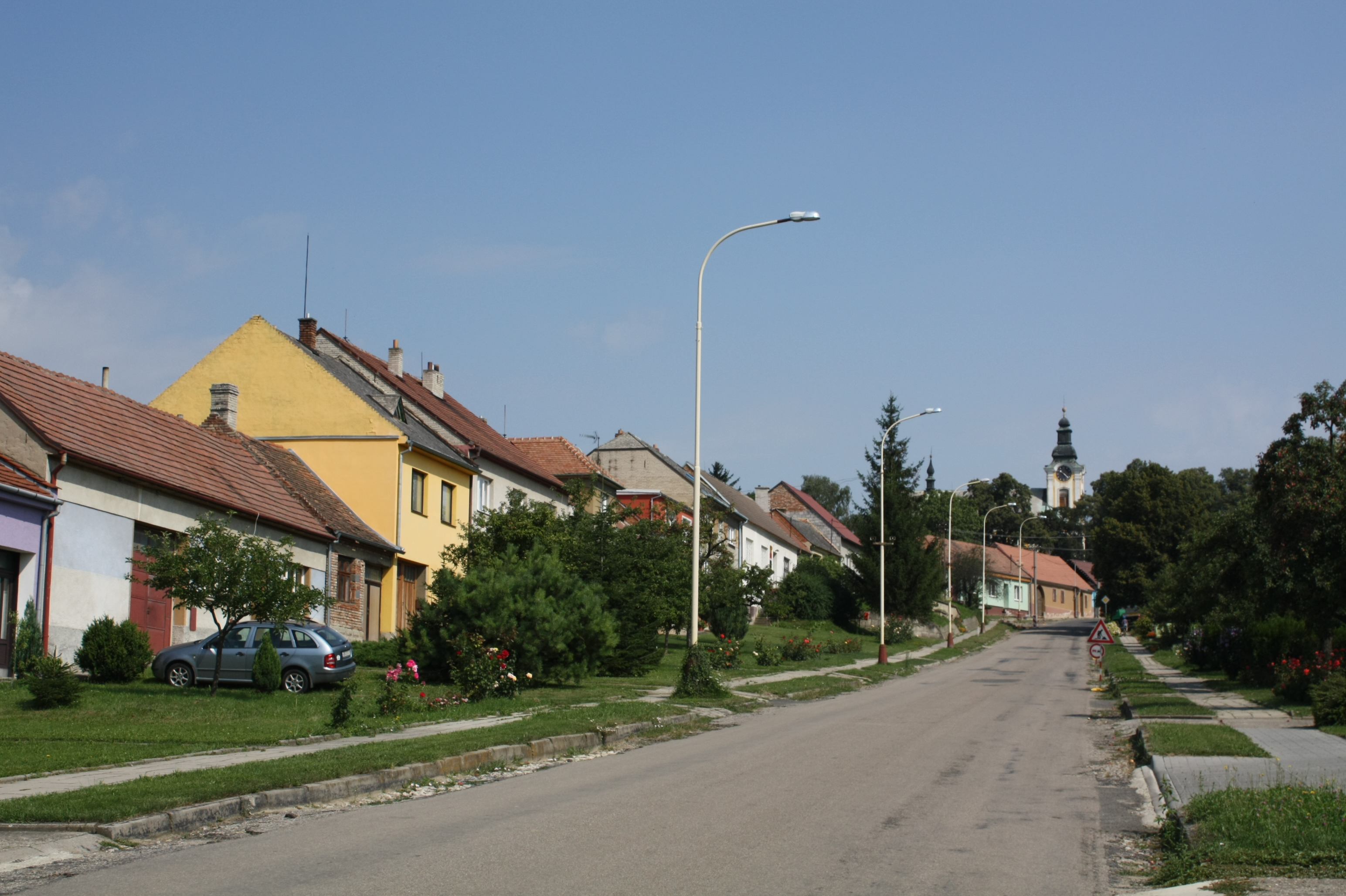 Žeravice, Hodonín district, Czech Republic - main street - OpenStreetMap(Info)